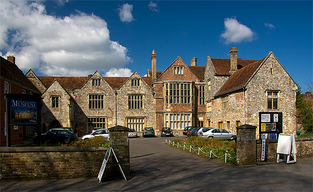 Houses of The Close: no. 65, The King's House This is essentially a C13/C14 building that was altered in the C16 and C17. English Heritage are rather scathing about the modern additions, which in their opinion has destroyed the character of the front. Nevertheless, it is still a fine Grade I Listed building, that currently houses the acclaimed Salisbury and South Wiltshire Museum. Its past history records that it was once the residence of the Abbot of Sherborne, and after the Reformation, of Sir Thomas Sadler, who hosted a visit of King James I, after whom the house was then named. In more recent times the Diocesan Training College for Schoolmistresses was established here in 1849, later becoming the College of Sarum St Michael.